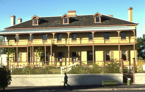 Juniper Hall, Paddington, Sydney (Kodachrome slide scanned at low res, originally taken c.1985)